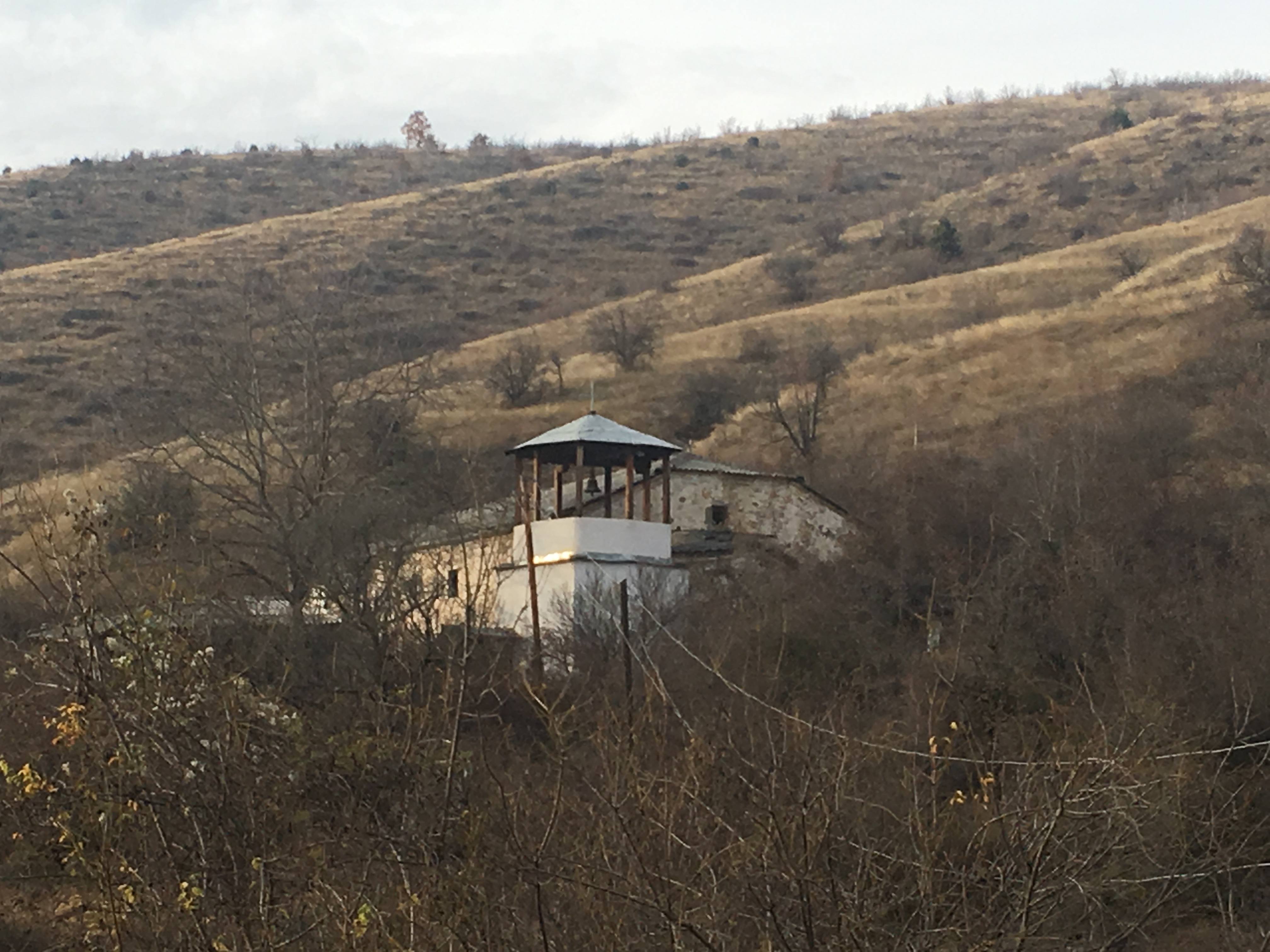 Church of the Theotokos in the village of Fariš